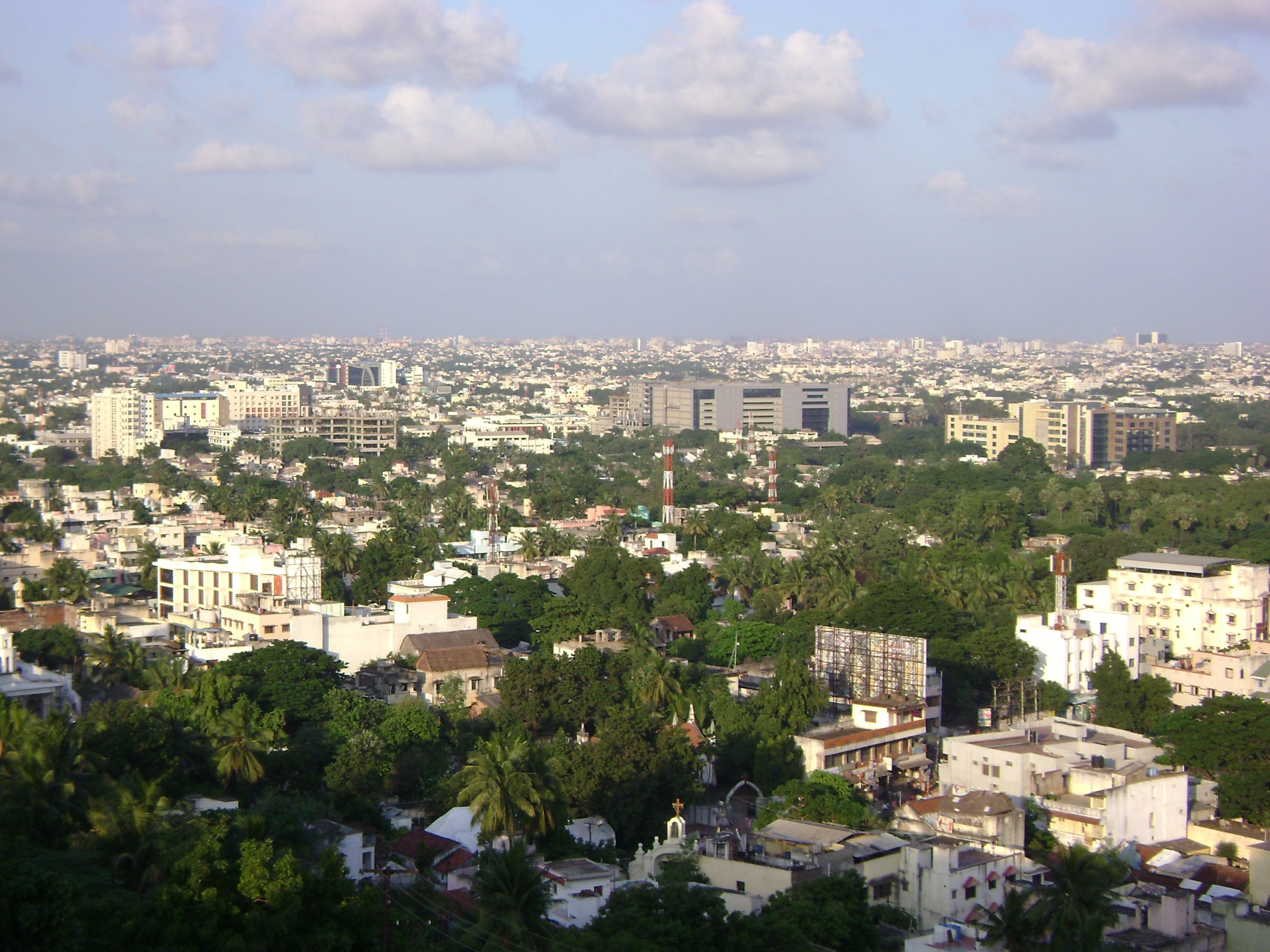 View of Chennai city from St. Thomas Mount